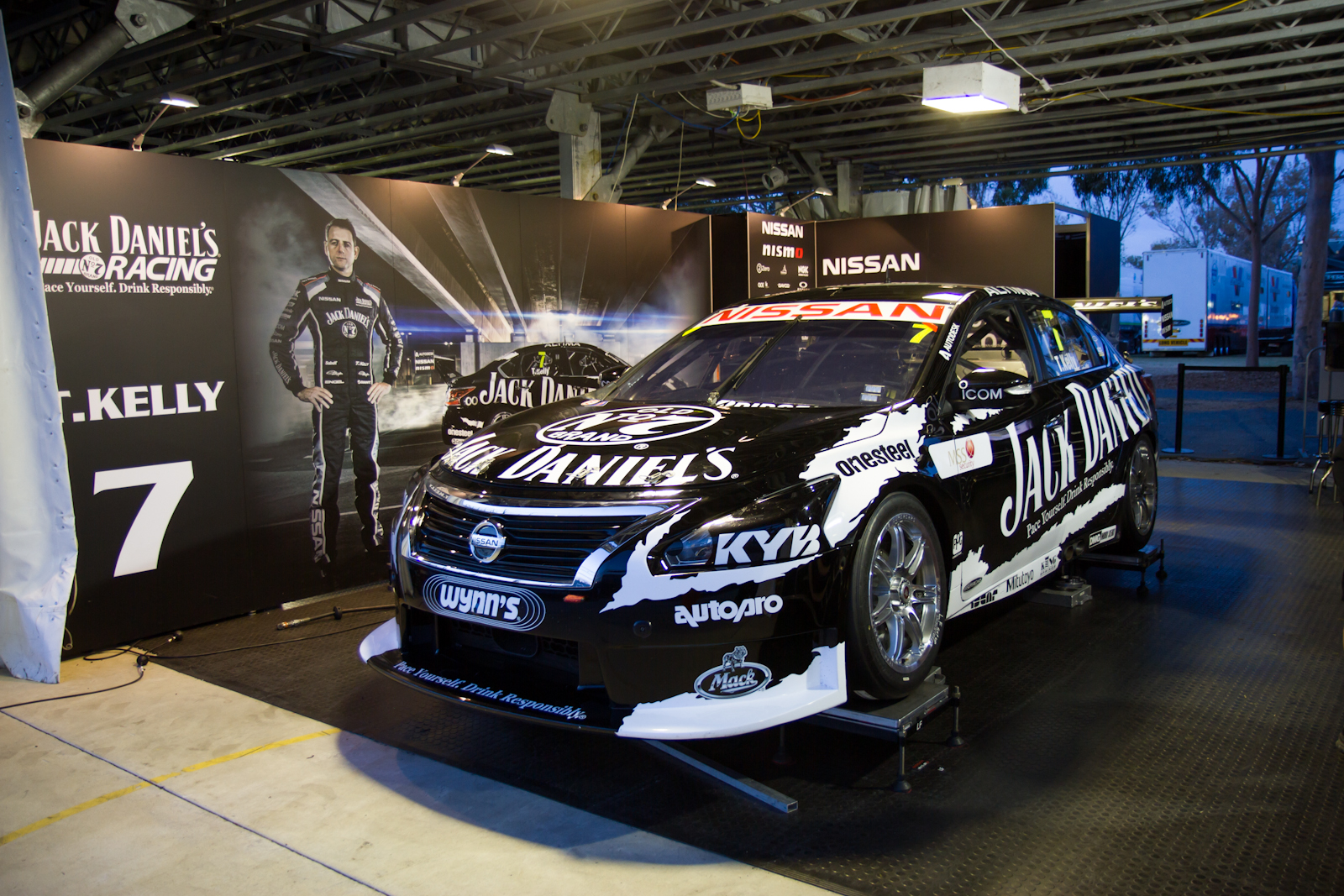 2014 Australian F1 Grand Prix